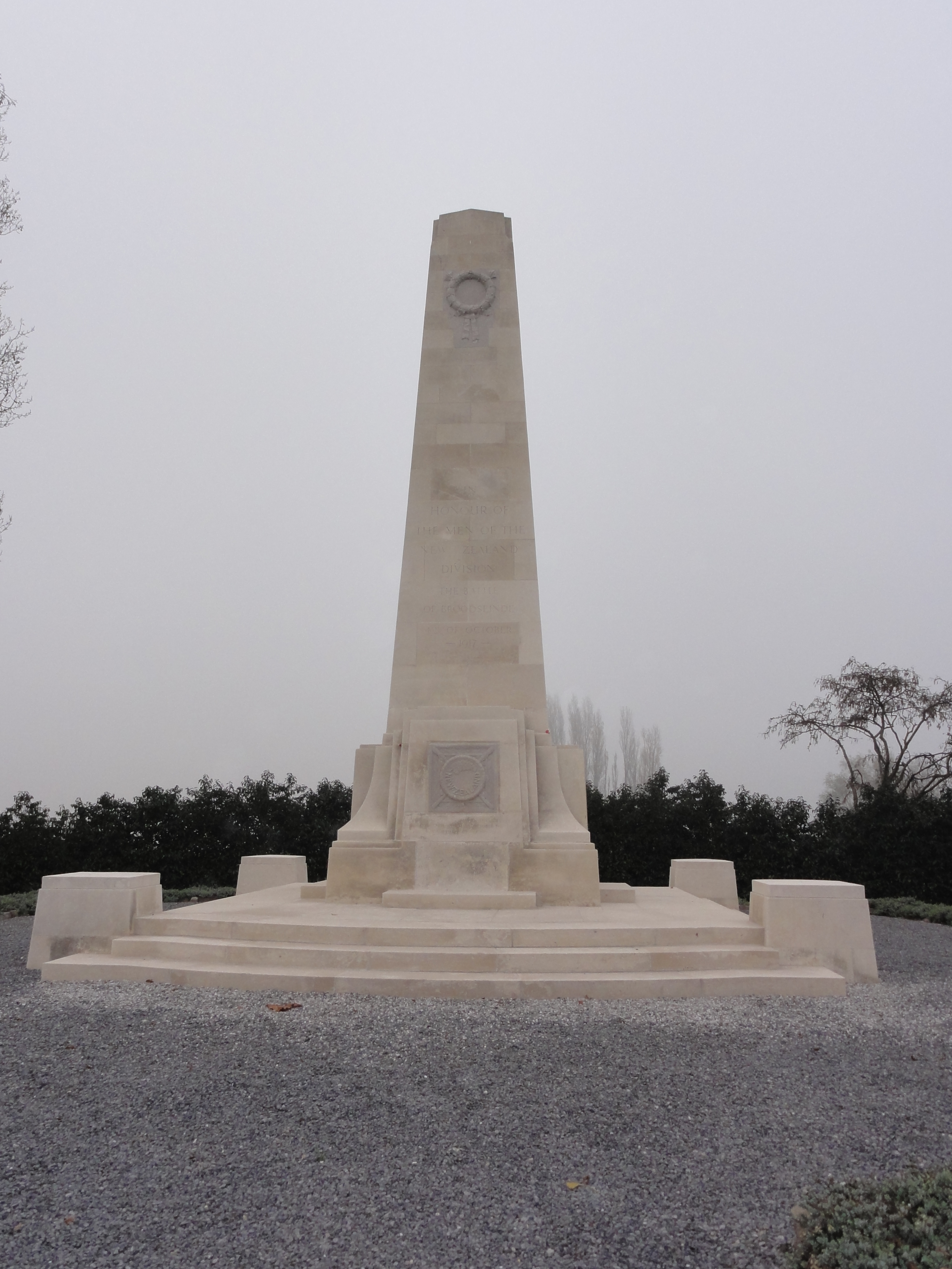 New Zealand Memorial at 's Graventafel. Passendale, Zonnebeke, West Flanders, Belgium